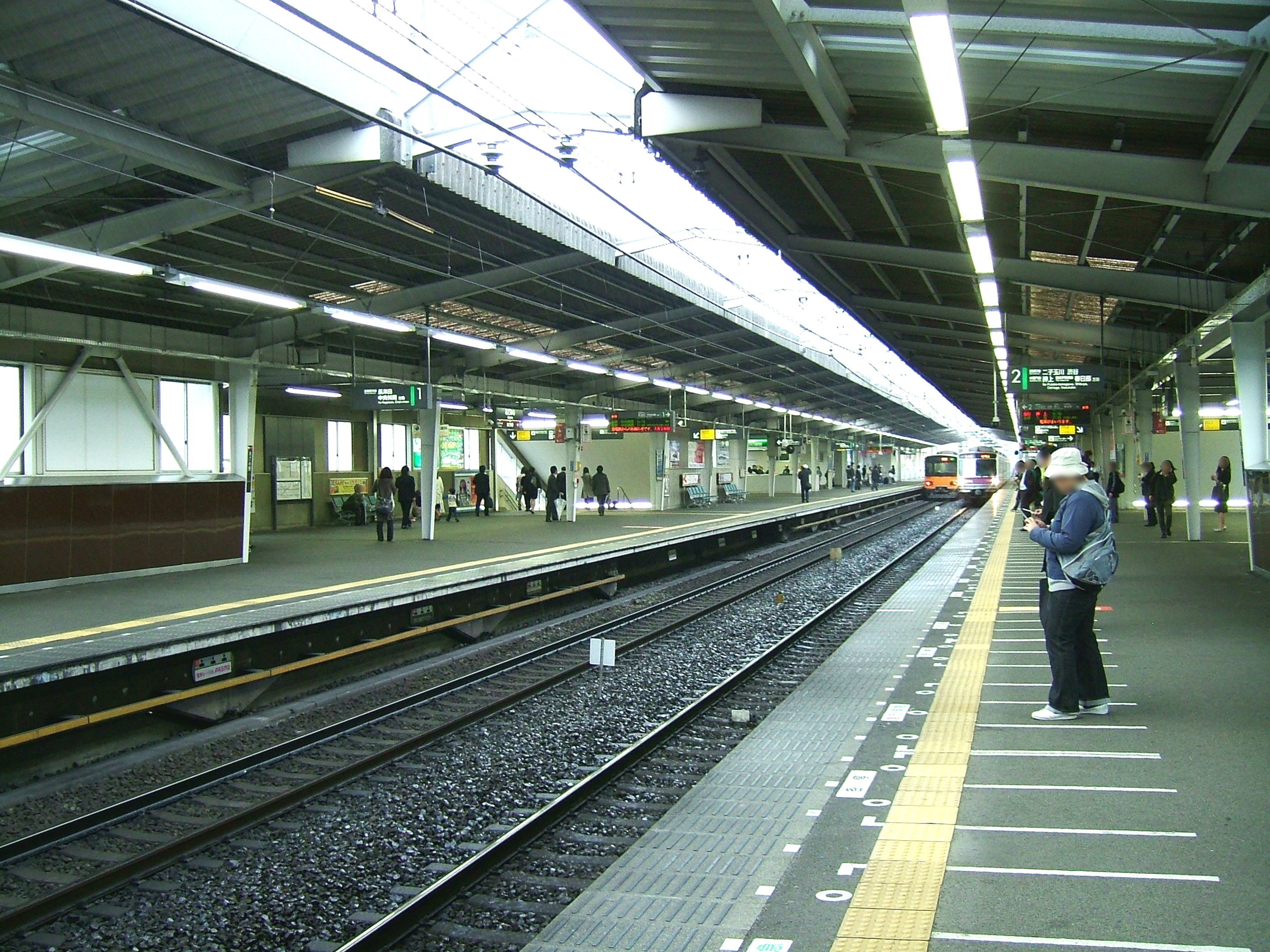 Azamino Station platform (Tōkyū Den-en-toshi Line)